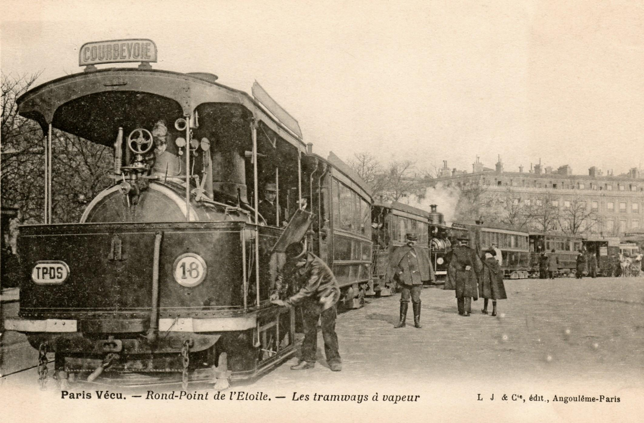 Francq Fireless tram, Paris Etoile-Courbevoie line, 1900 Personal collection vintage postcard from "L,J et Cie Angoulème-Paris" around 1900 : Rond point de l'étoile - les tramways à vapeur